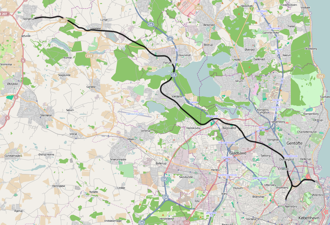 Railway line Copenhagen - Slangerup